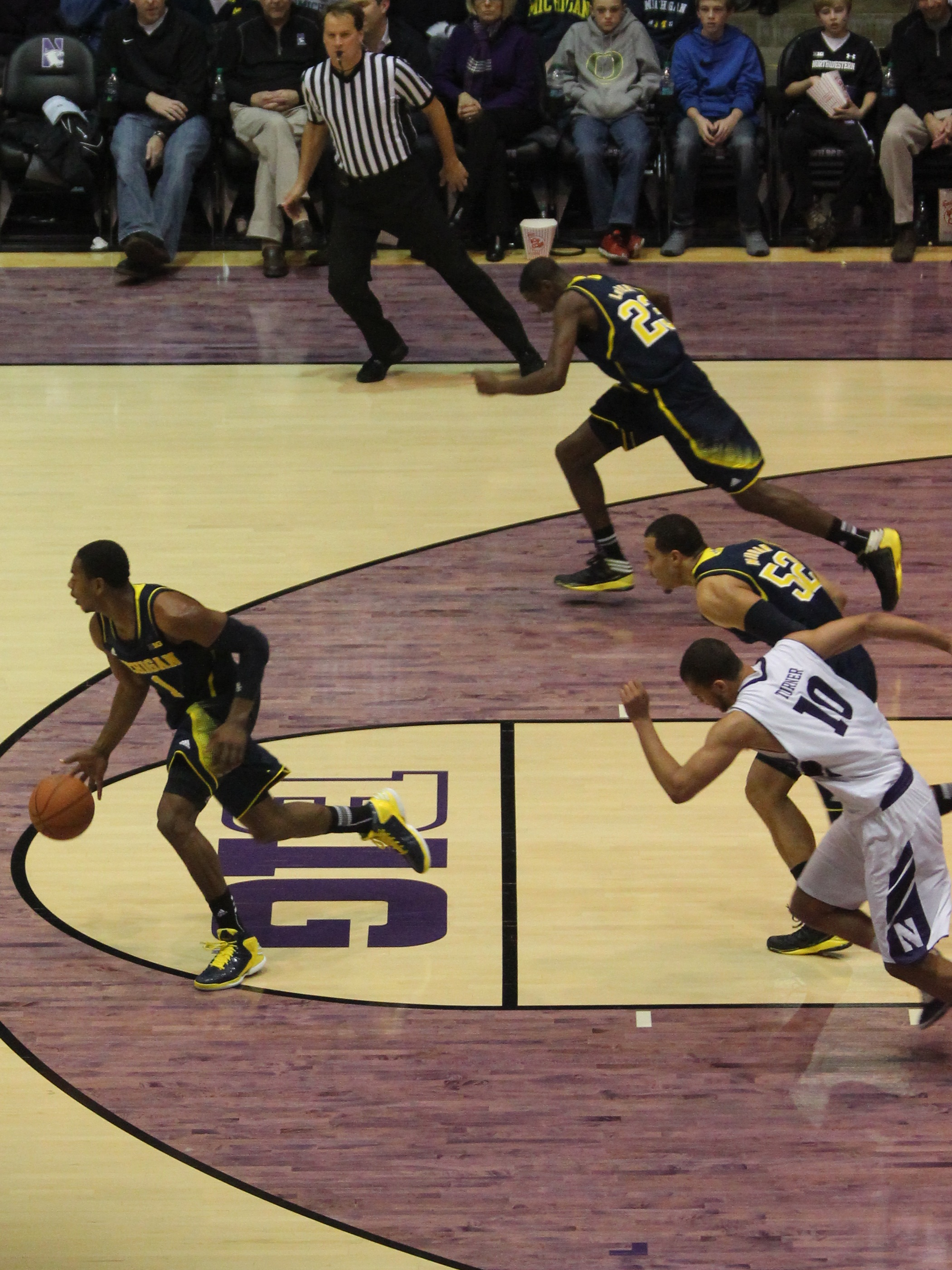 Glenn Robinson III starting a fast break for the 2012–13 Michigan Wolverines men's basketball team against 2012–13 Northwestern Wildcats men's basketball team